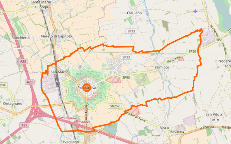 Palmanova, Italy, county boundaries area